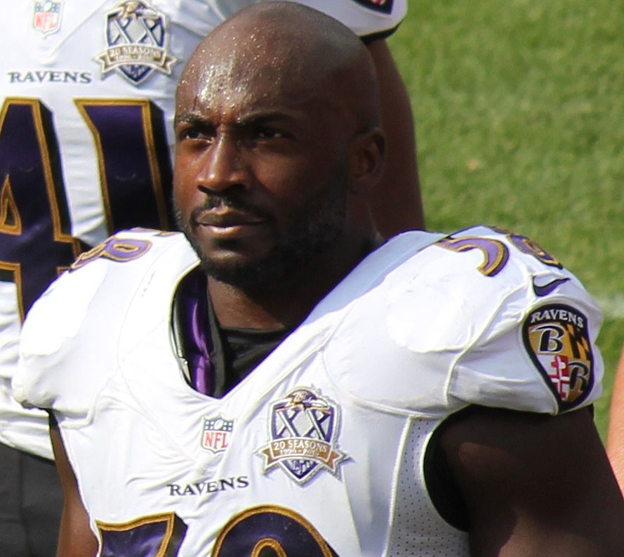 Elvis Dumervil, a player on the National Football League.